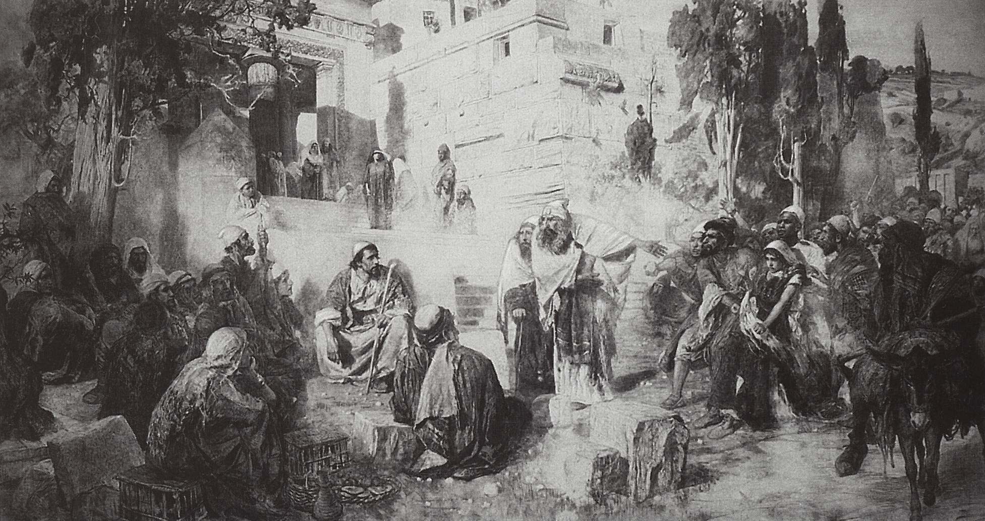 Christ and the woman taken in adultery (charcoal study by Vasily Polenov for the 1888 painting)